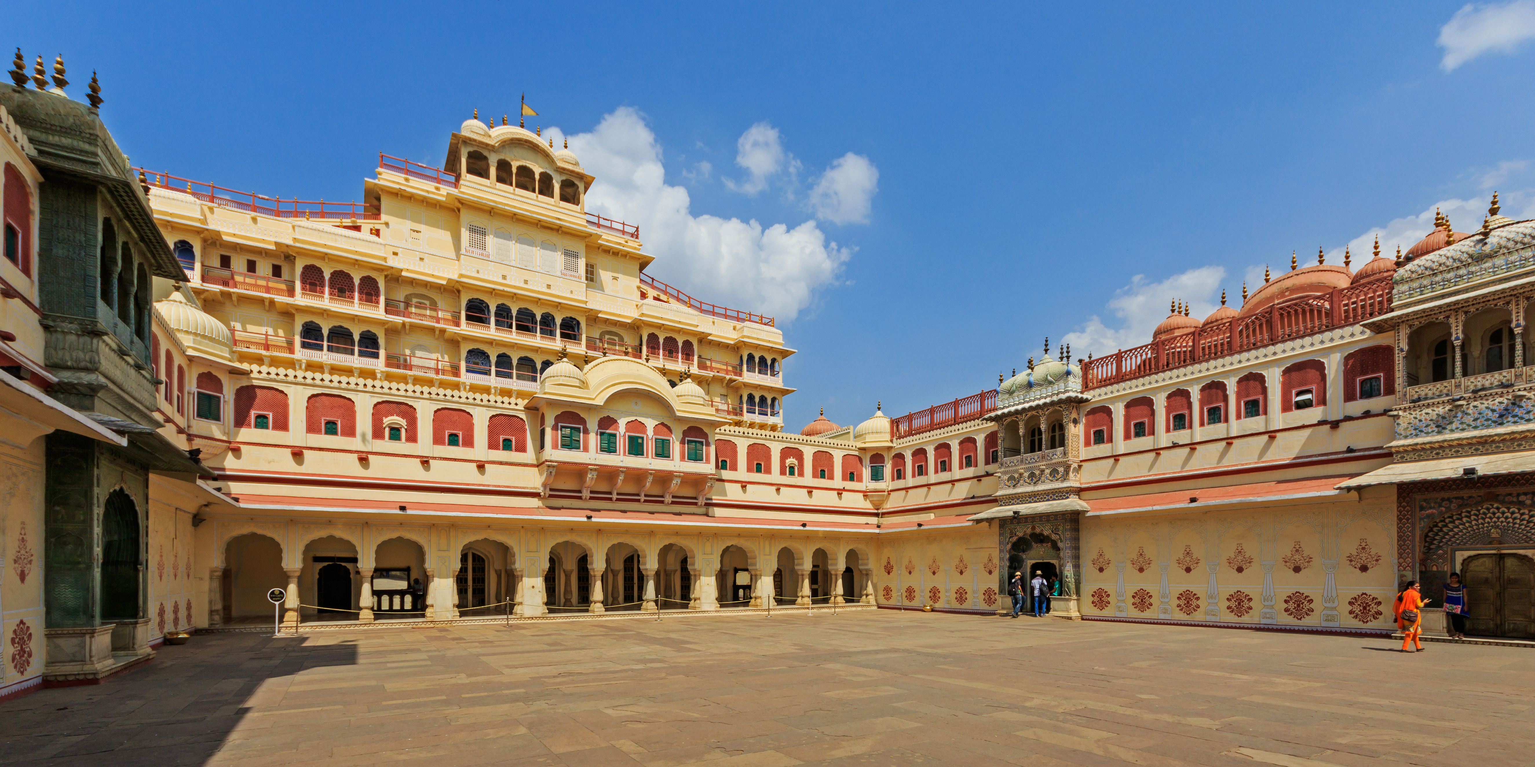 Buildings of the City Palace in Jaipur, India